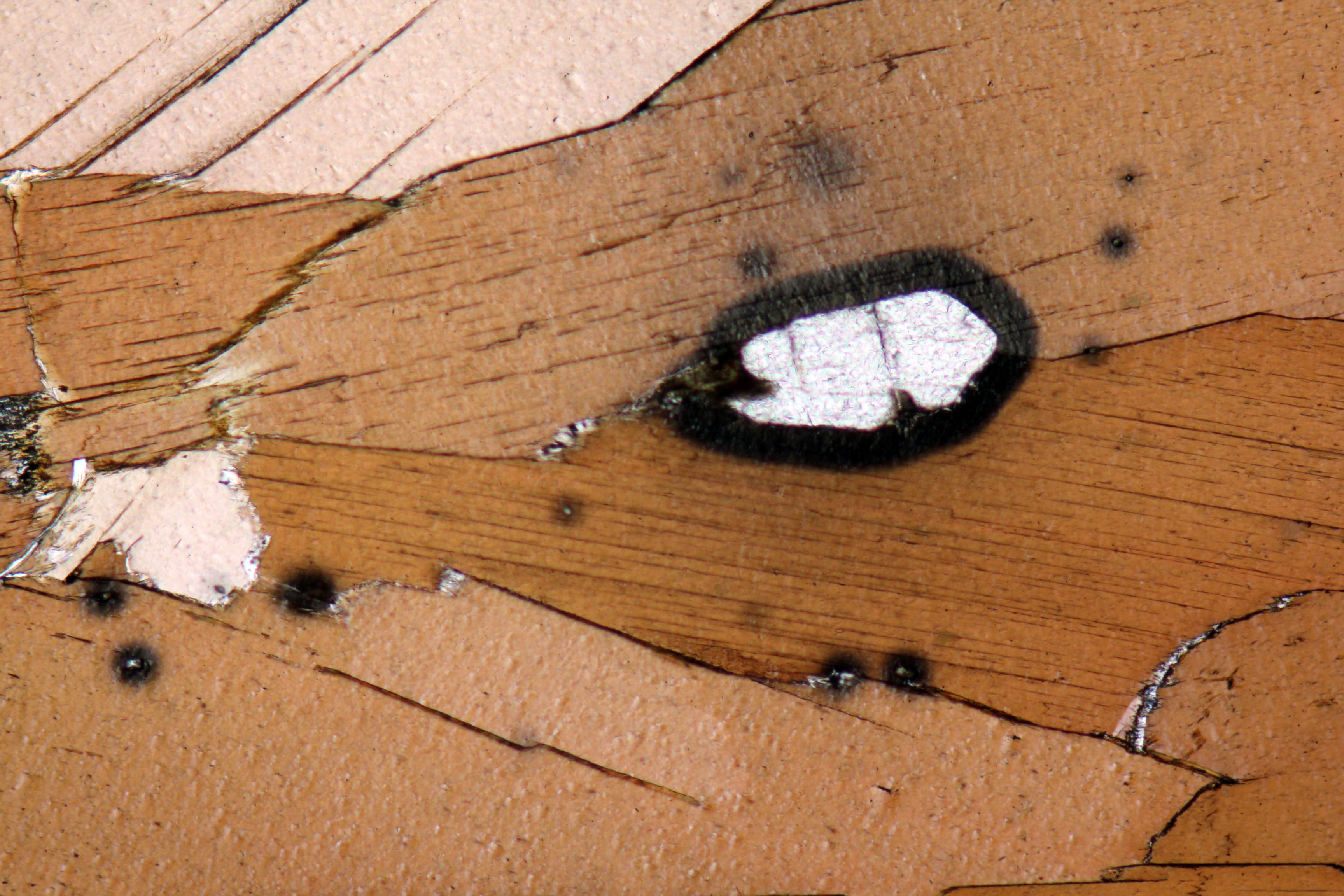 Pleochroic halo around zircons enclosed in Biotit (the halo is due to the radiation damage caused by the radioactive dacay of element contained in the zircon structure). Punta aiunu, sardinia. Plane polarized light image image, magnification 20x (Field of view = 1mm)